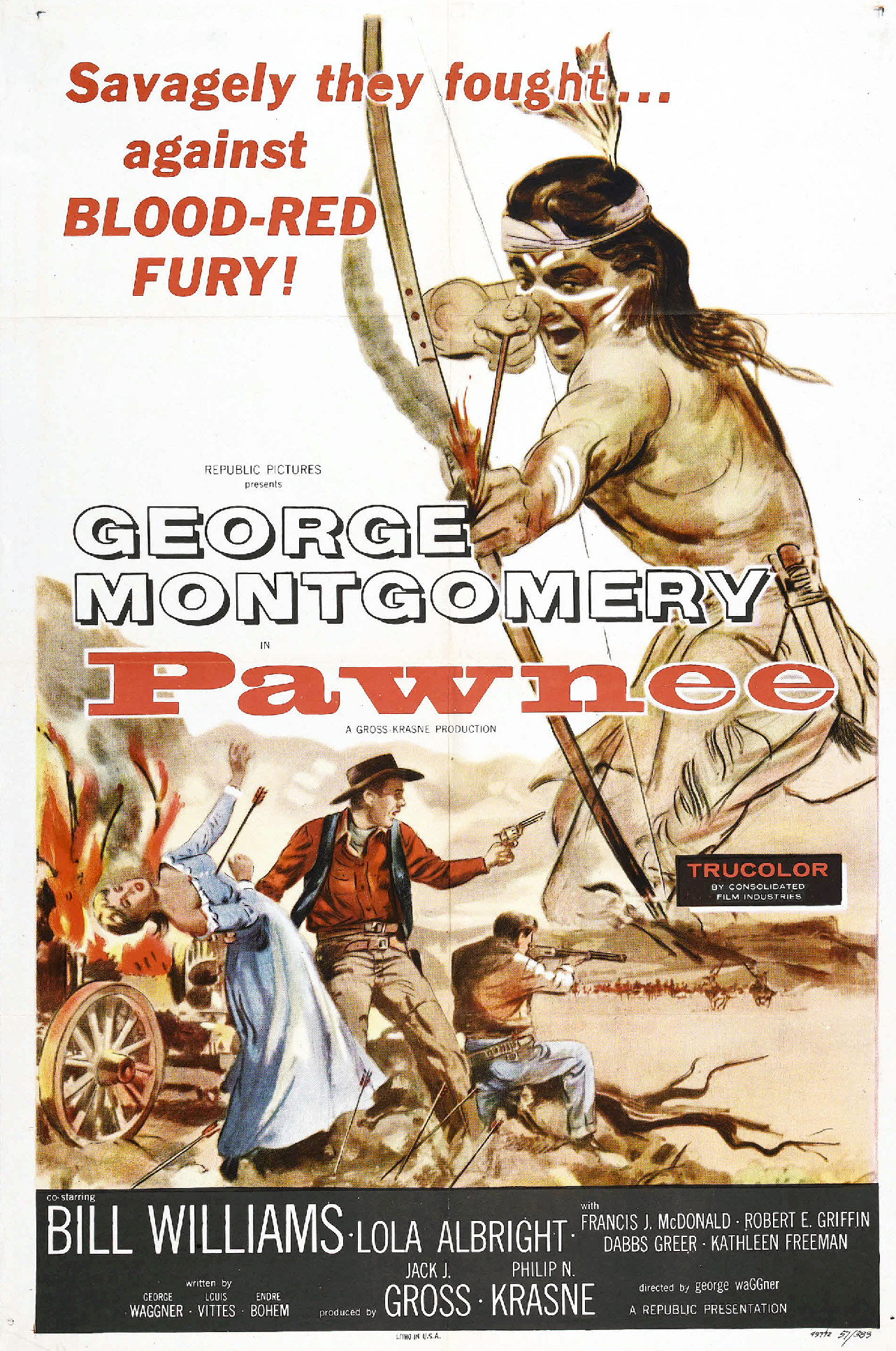 Poster for the 1957 film Pawnee. There are no copyright marks. At bottom is Litho in USA and 49772 57/383.